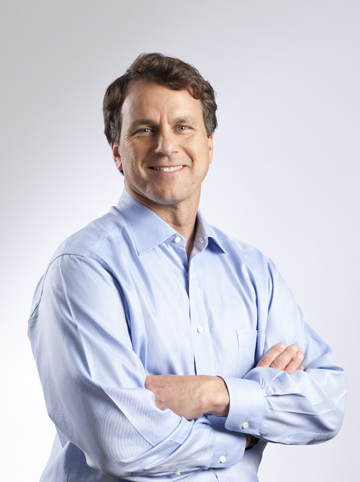 Glen Tullman , CEO of Allscripts